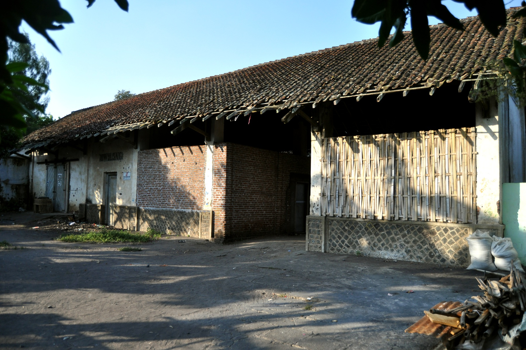 Ex Yosowilangun train station, closed since 1986, in Lumajang, East Java, Indonesia. Main building, now for housing.